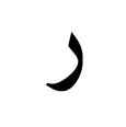 Letter Ḏāl of the arabic abjad